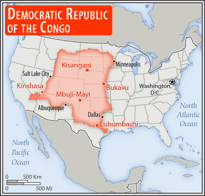 Comparison of the areas of two country. The area of the Democratic Republic of the Congo with biggest cities (red) overlay the area of the United States of America (gray background).